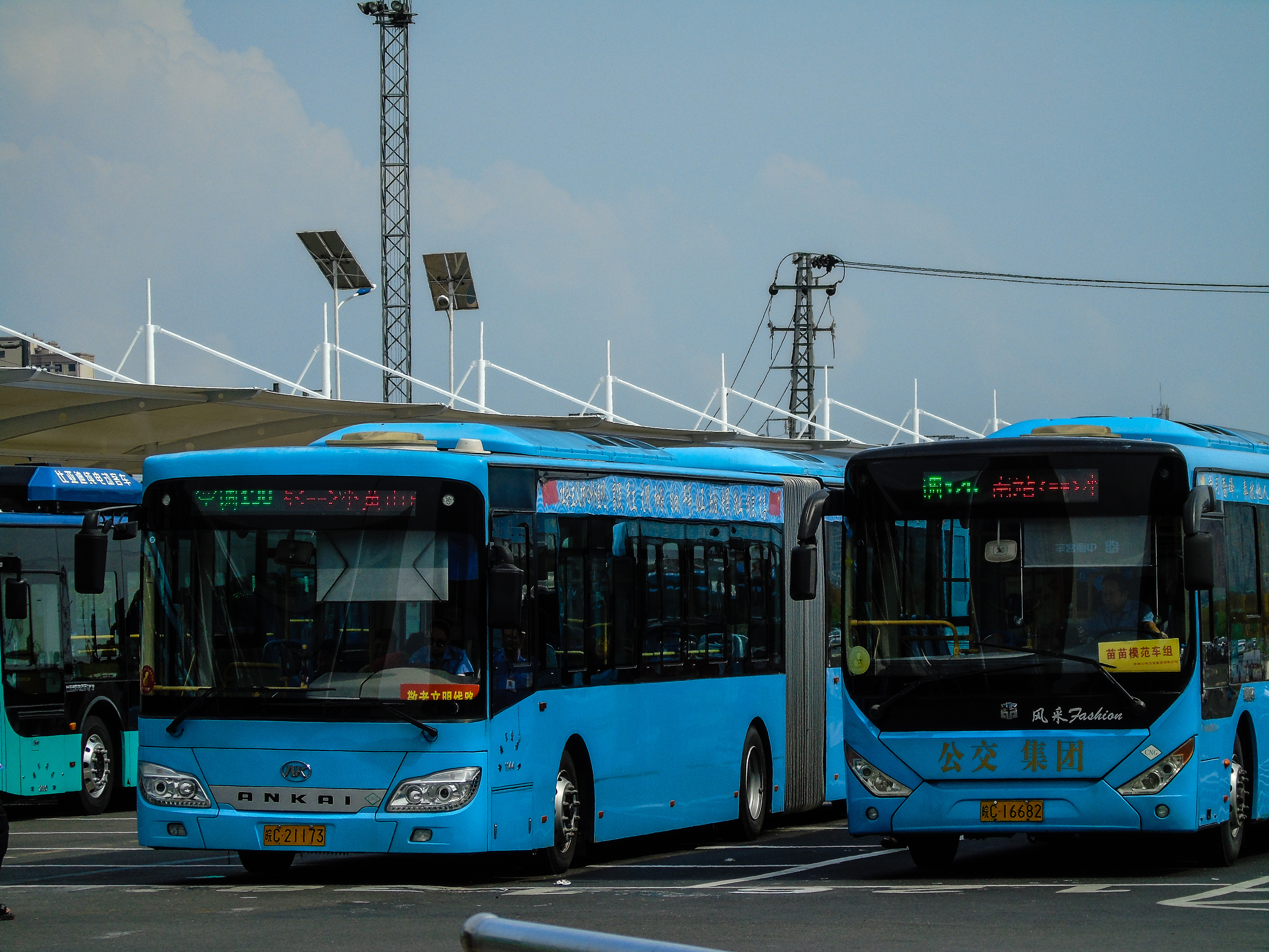 Bengbu Bus No.138 and No.126